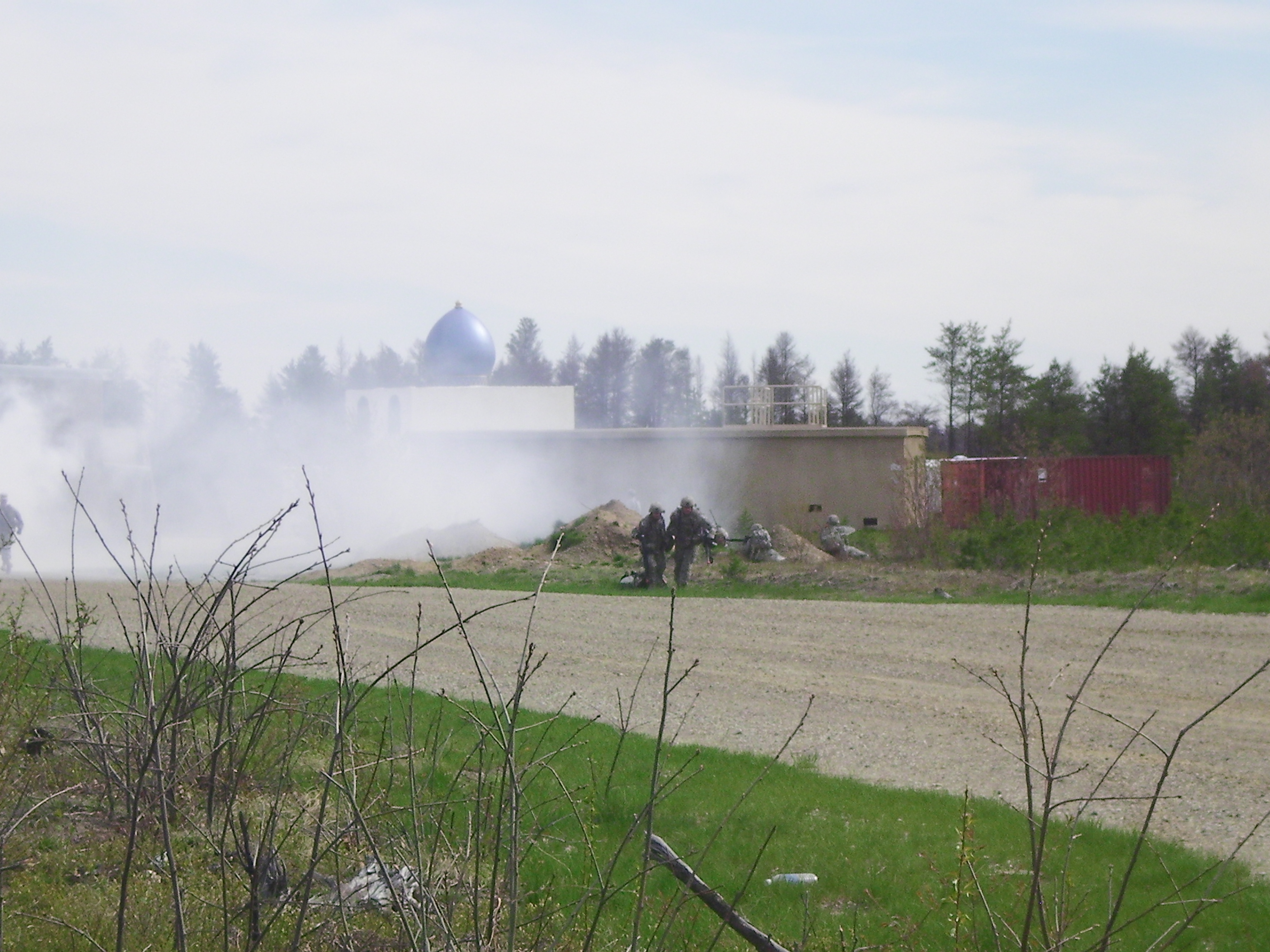 1431 En Co, 107th En Bn Medics simulating combat casualty extraction in a combat situation.